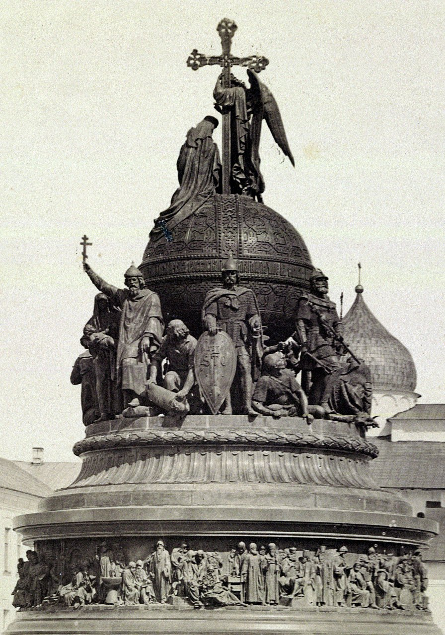 Memorial to commemorate the 1000 anniversary of Novgorod